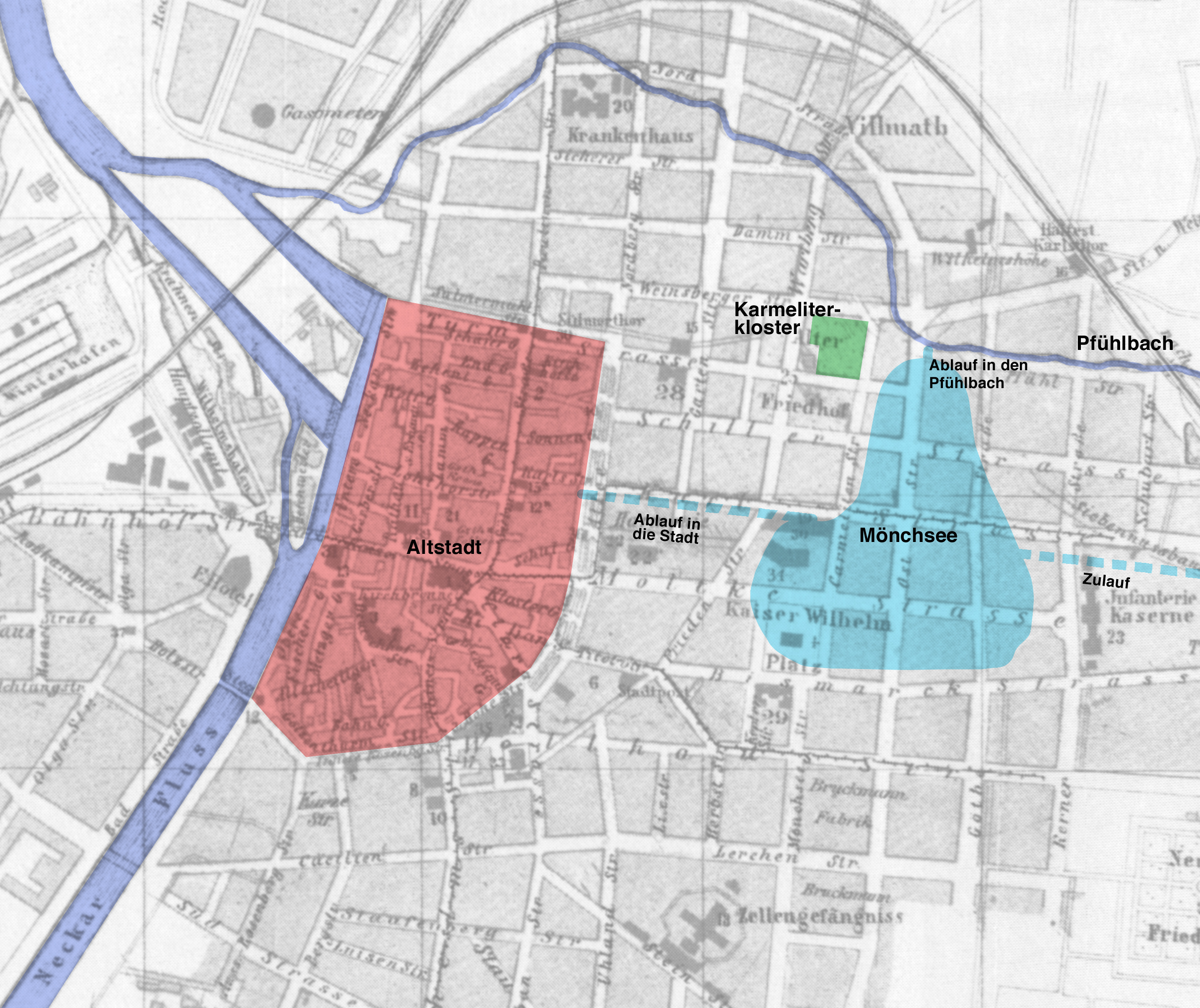 Mönchsee (sea as of 1500) on a map of Heilbronn from 1903